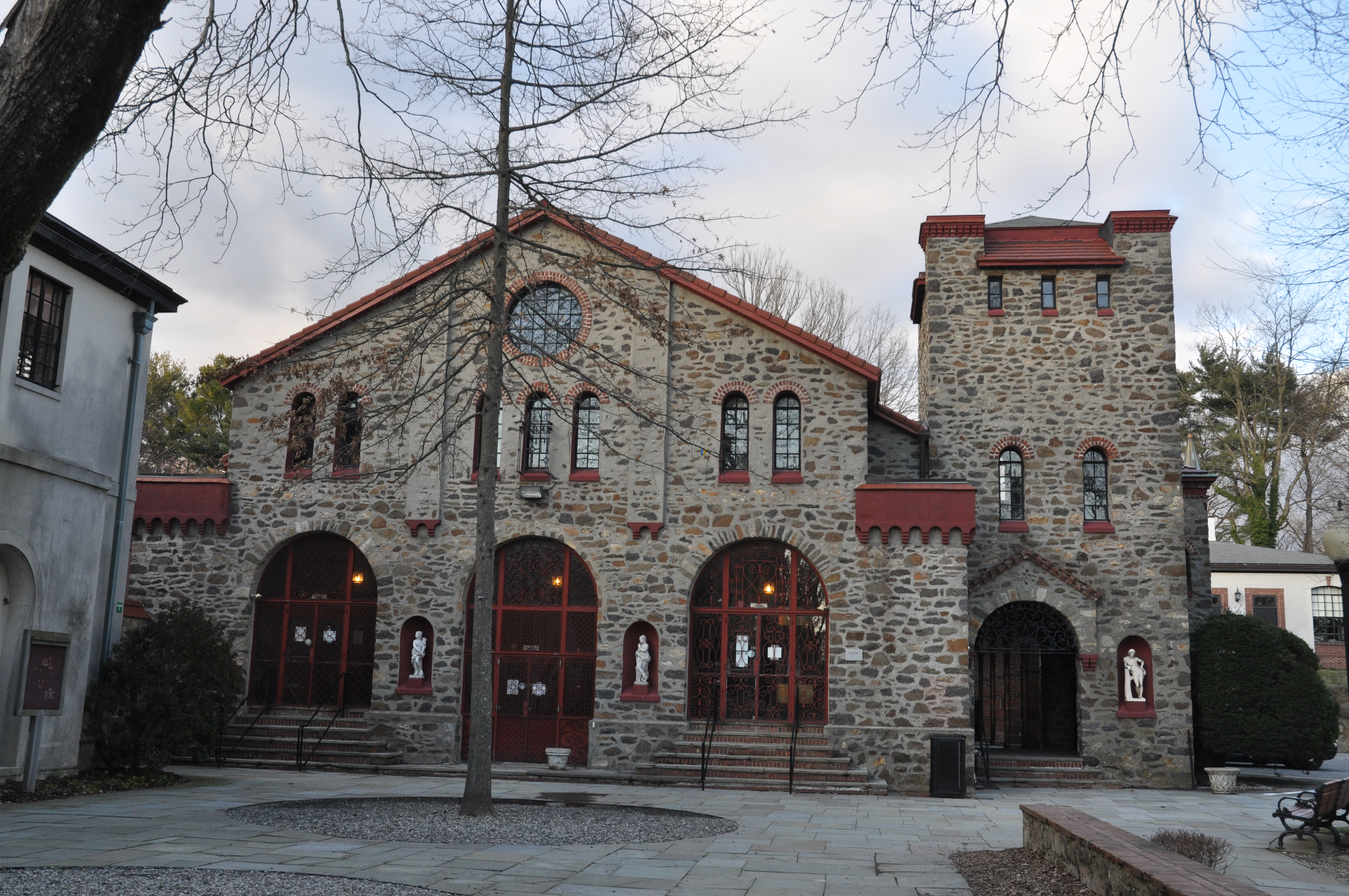 Main building of Greenwich Japanese School (a.k.a Japanese School of New York). The former campus of Rosemary Hall.